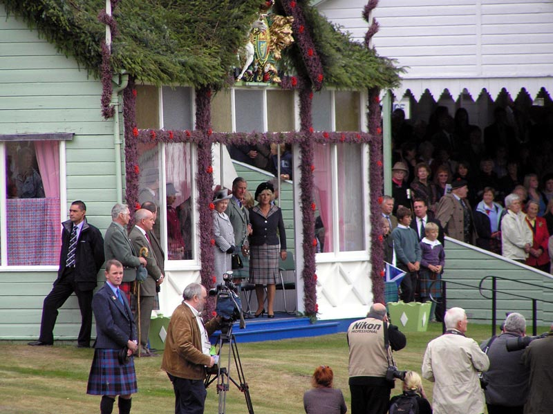 This photograph taken by Joe Dorward on 02SEP06 'Games Day' shows the 'Royal Box